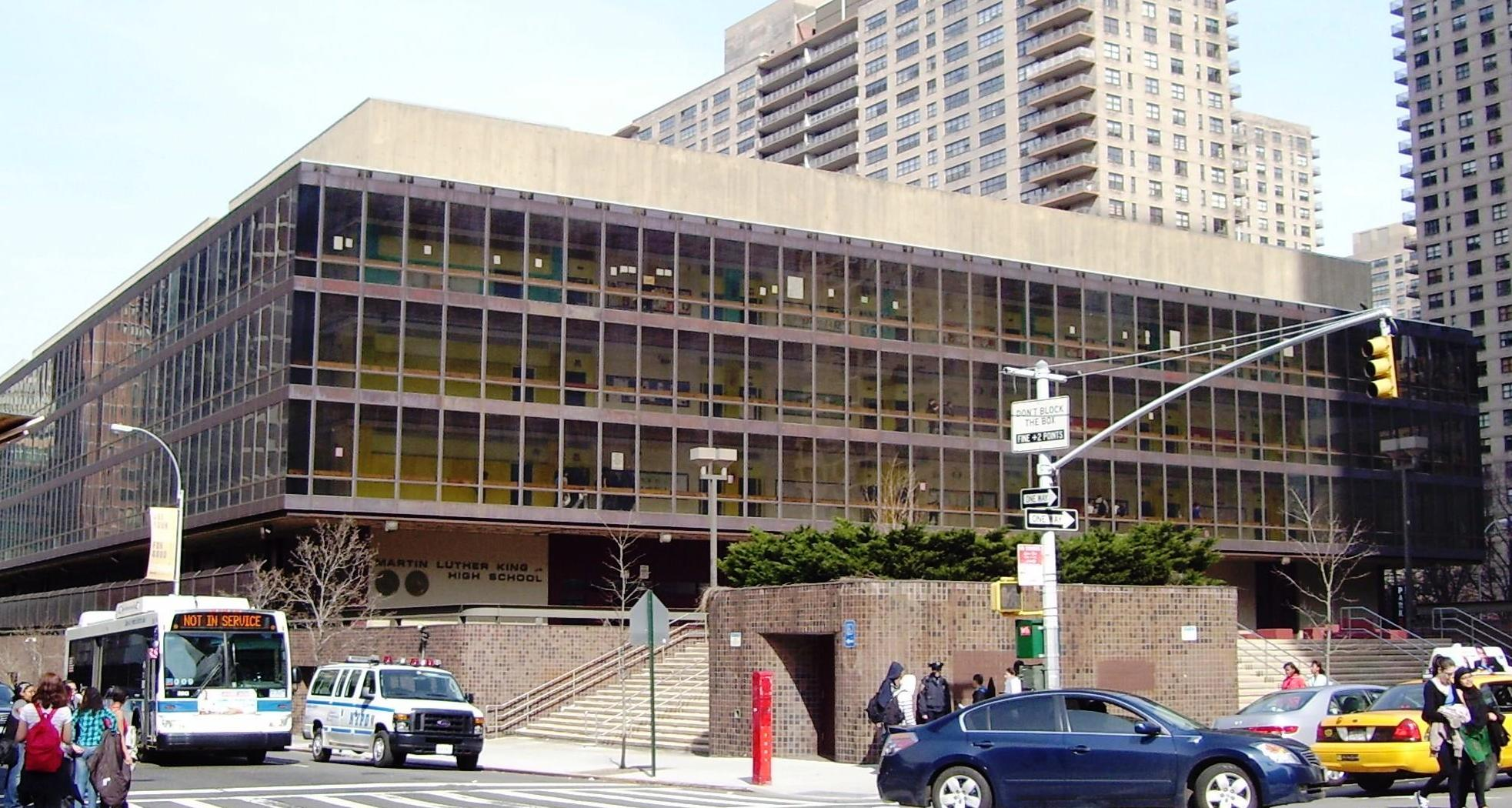 The Martin Luther King, Jr. Educational Campus is a five-story public school facility at 122 Amsterdam Avenue between West 65th and 66th Streets in the Lincoln Square neighborhood of Manhattan, New York City, near Lincoln Center. The campus is faced on Amsterdam Avenue by a wide elevated plaza which features a self-weathering steel memorial sculpture by William Tarr. The same steel, called Mayari R, was used in the curtain wall of the building, the interior of which has an arrangement of perimeter corridors with floor-to-ceiling windows, leaving many classrooms on the inner side windowless. Formerly the location of Martin Luther King, Jr. High School, which was closed in 2005, the building is now occupied by six smaller high schools. (Source: AIA Guide to NYC (4th ed.)